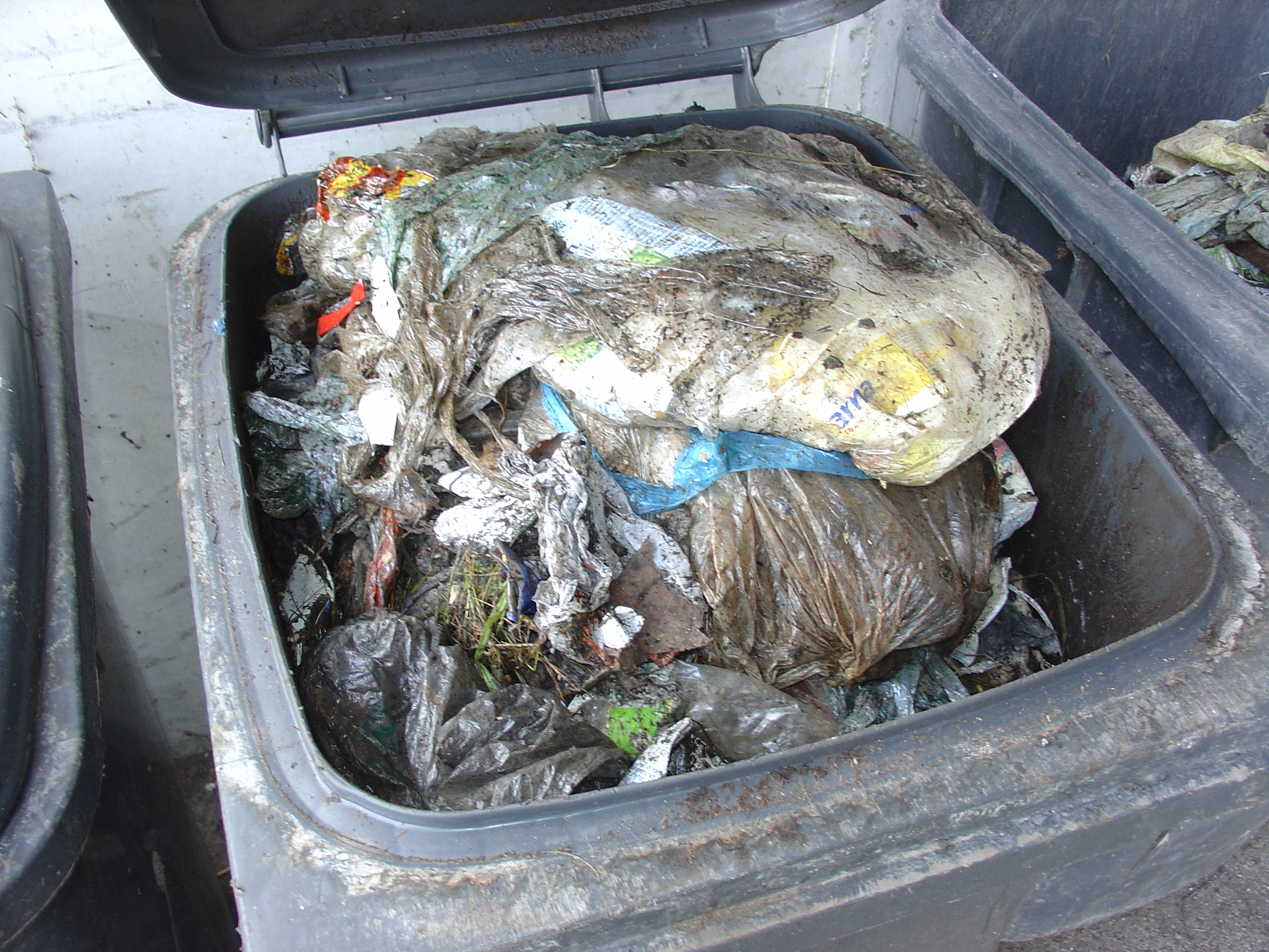 Foreign objects separated from collected residential biowaste